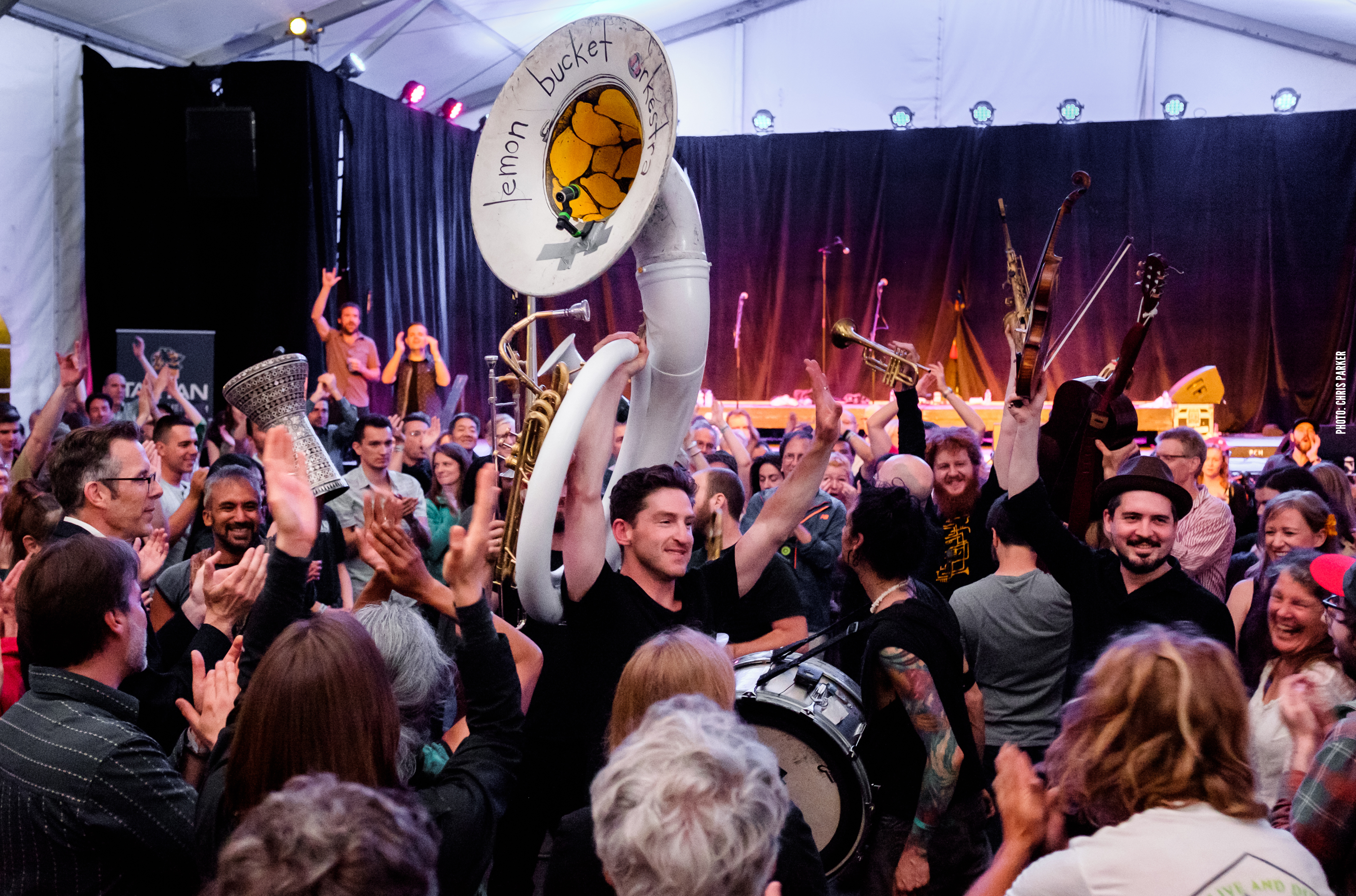 2017 Ottawa Jazz Festival OLG After Dark Series - Photo by: Chris Parker